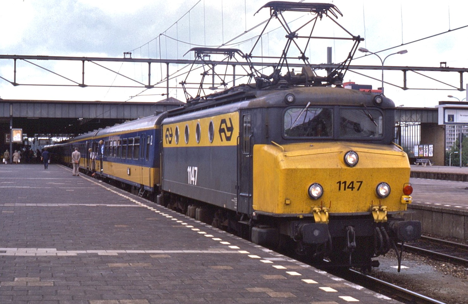 NS Class 1100 locomotive 1147 at Eindhoven, the Netherlands, on an InterCity service.